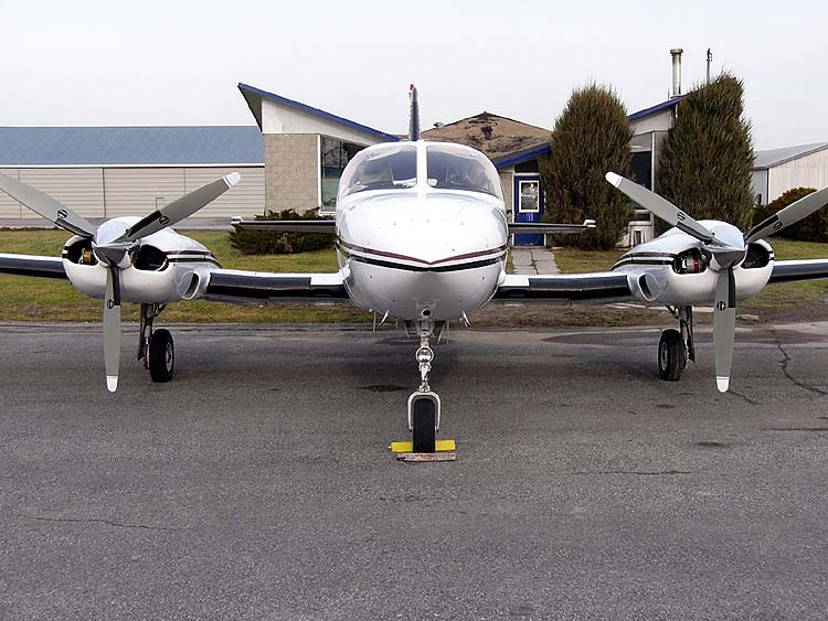 Cessna 421B Golden Eagle (C-GKOZ) seen at Carp Airport near Ottawa ON, 17 December 2006